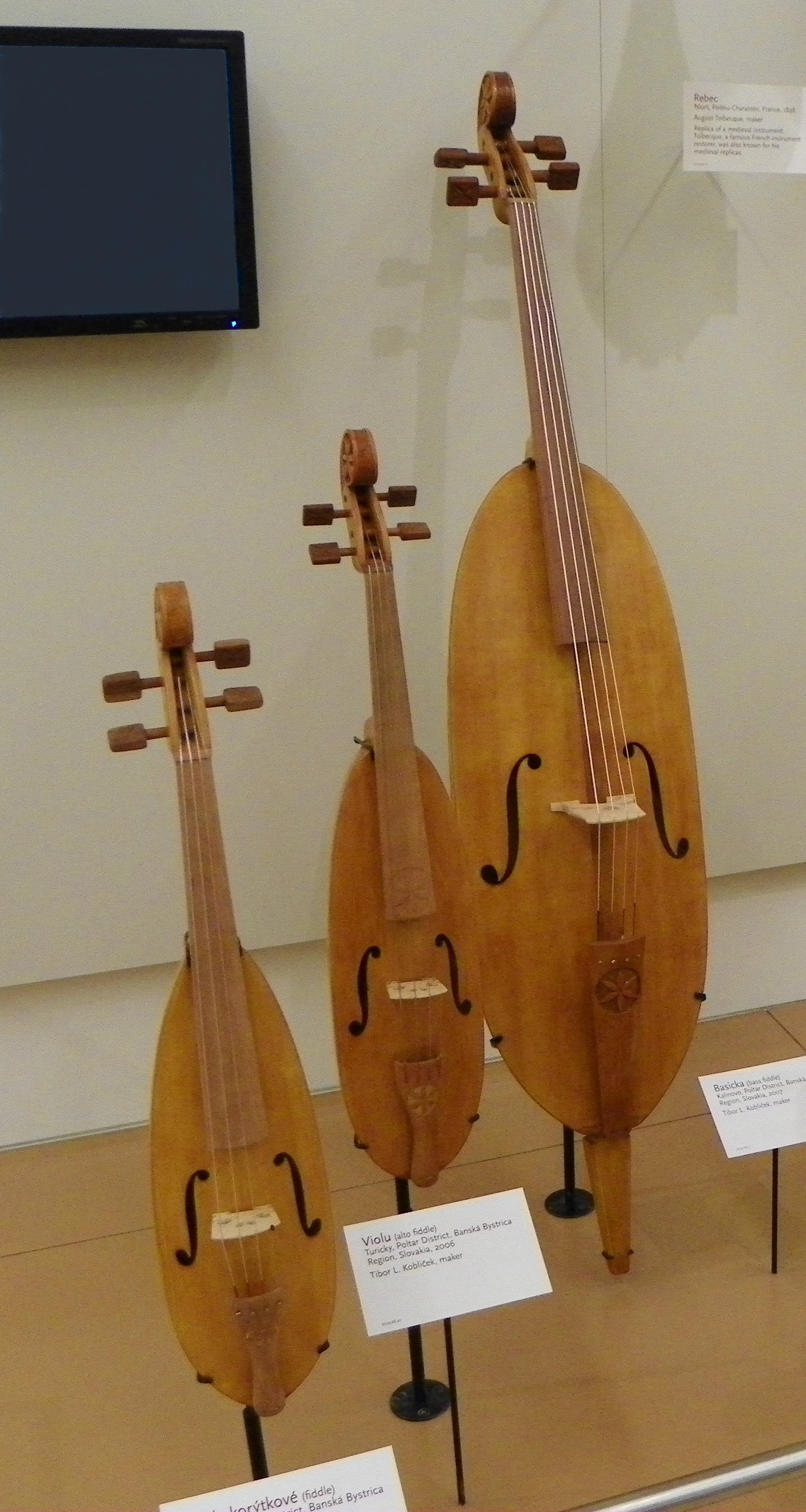 A trio of Slovakian fiddles Photograph of musical instruments taken at the Musical Instrument Museum (Phoenix) on 2011-04-26.